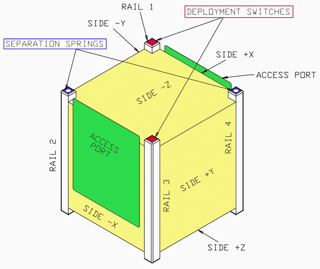 Some of the physical dimensions of a 1U cubesat as given in the CubeSat Design Specification rev. 12